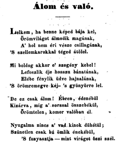 Poem of Kunoss Endre